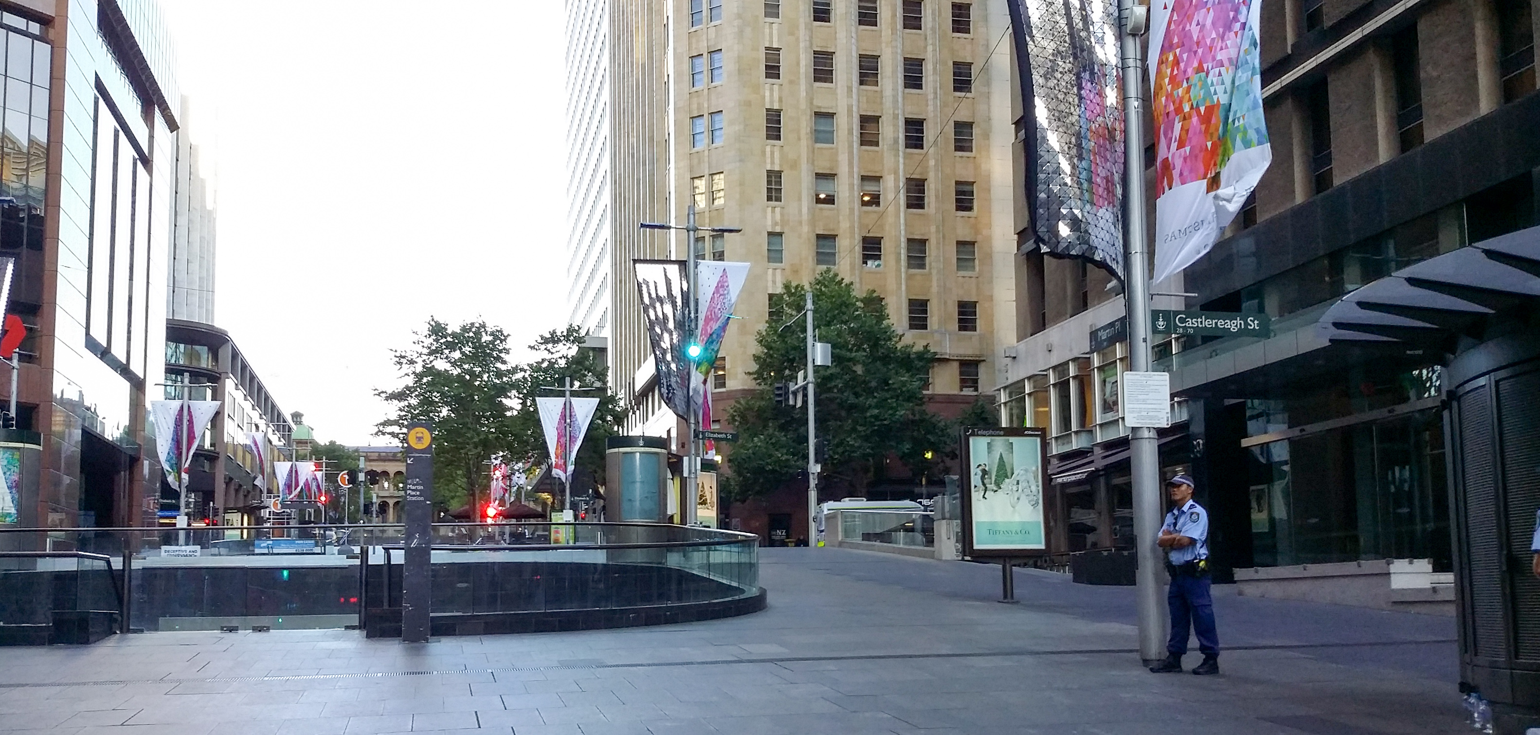 2014 Sydney hostage crisis, Martin Place, Sydney